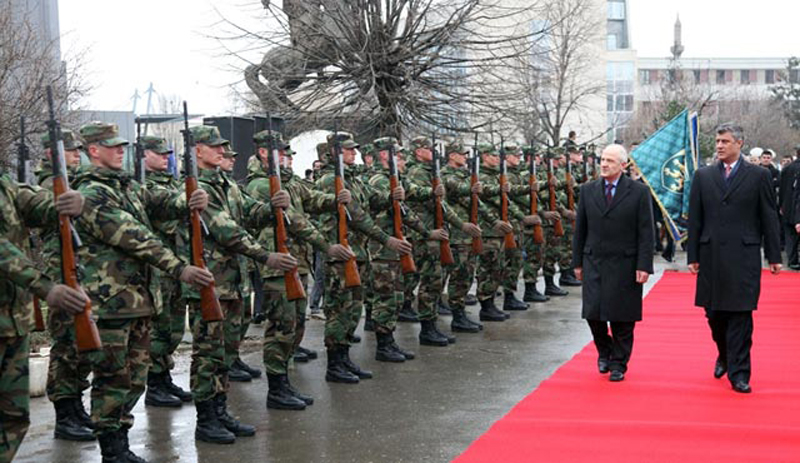 Kosovo President Sejdiu (left) and PM Thaci (right) inspecting the KSF Honor Guard